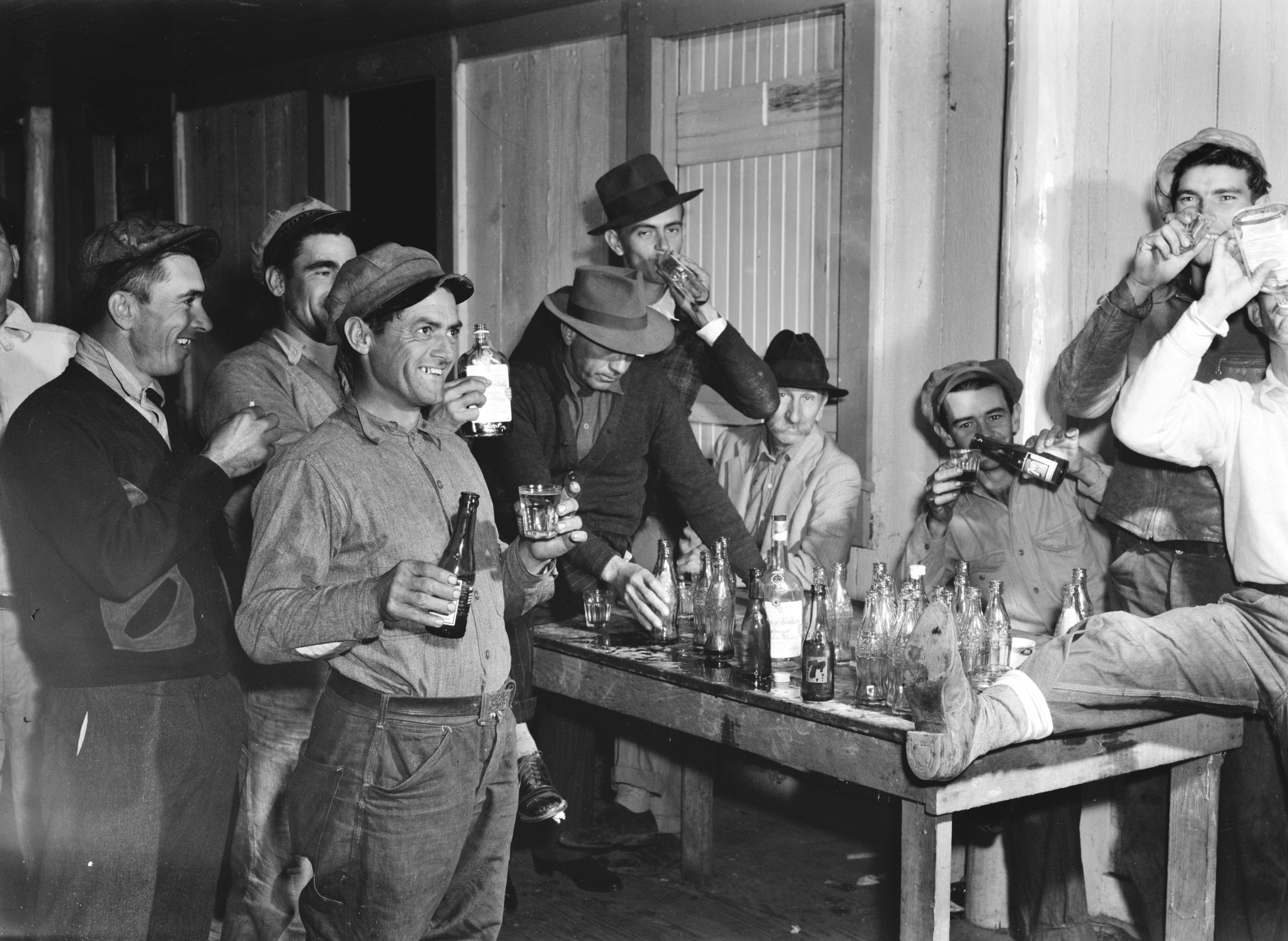 "Spanish muskrat trappers have a round of drinks after each lot is sold at the fur auction held in a dance hall on Delacroix Island, Louisiana" 1941 Note: "Spanish" in this context probably means the trappers are Louisiana Isleño.